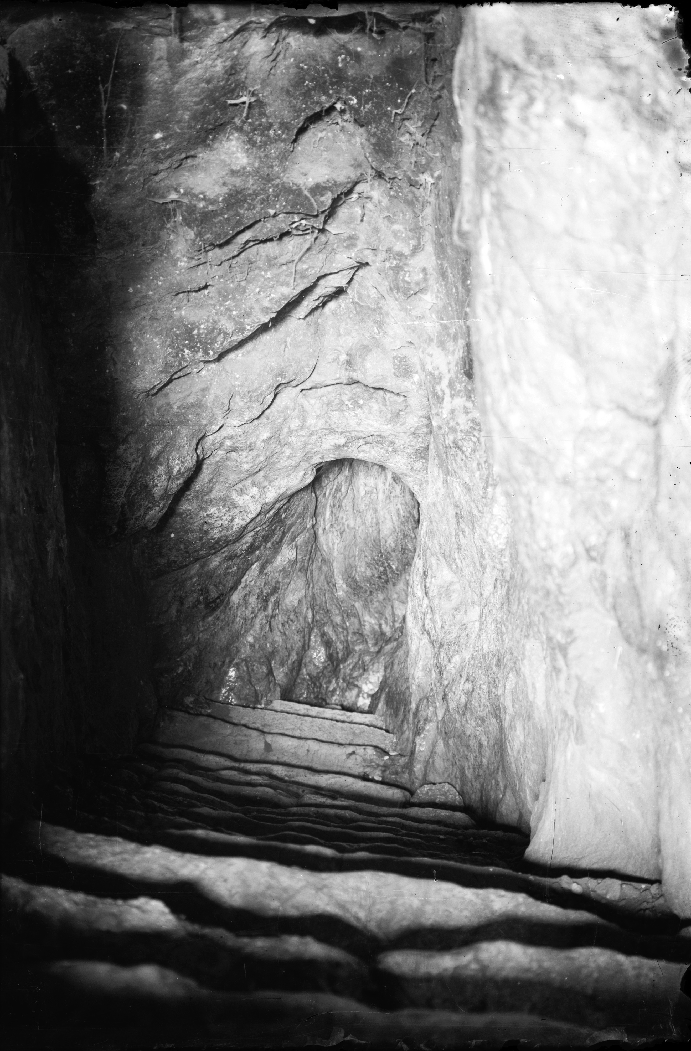 Valleys of Jehoshaphat and Hinnom. Entrance to Siloam Tunnel at Virgin's Fountain.